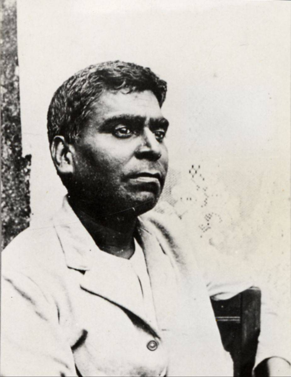 Bhaktivinoda Thakur as a teacher ca. 1870s